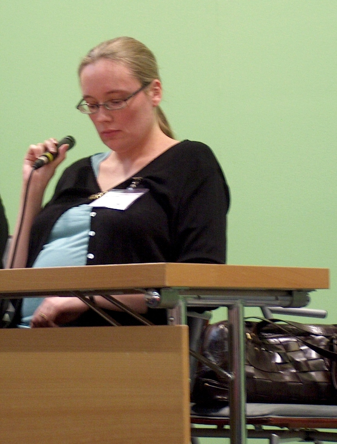 Finnish writer Marja-Liisa Heino at the Helsinki Book Fair in 2008